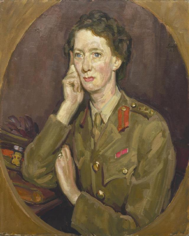 Senior Controller Christian Helen Fraser-tytler, Cbe - Deputy Director of Aa Command, Ats image: a head and shoulder portrait of Senior Controller Christian Helen Fraser-Tytler in uniform, shown in a painted oval surround.